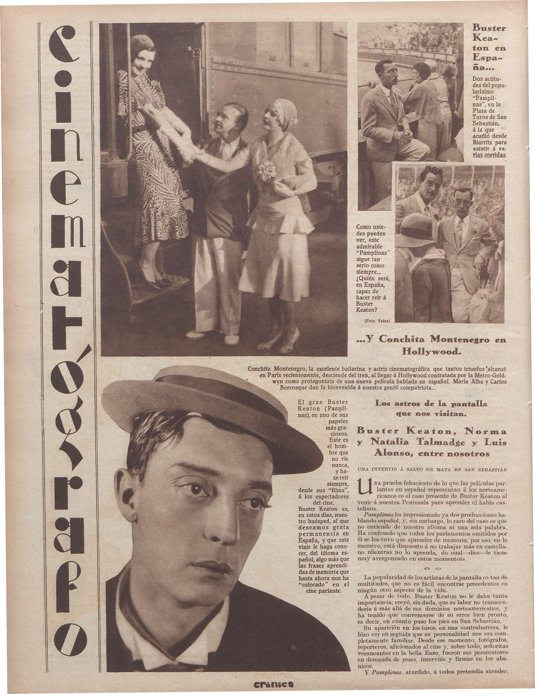 "Tal día como hoy (1895) nacía el actor cómico Buster Keaton. ¿Habéis visto alguna de sus películas? En España fue conocido artísticamente como "Pamplinas", y fue tan popular que hasta protagonizó un famoso poema de Rafael Alberti..."